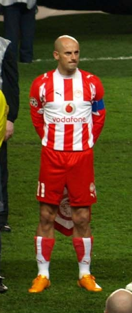 Predrag Đorđević. Chelsea (3) v (0) Olympiakos.